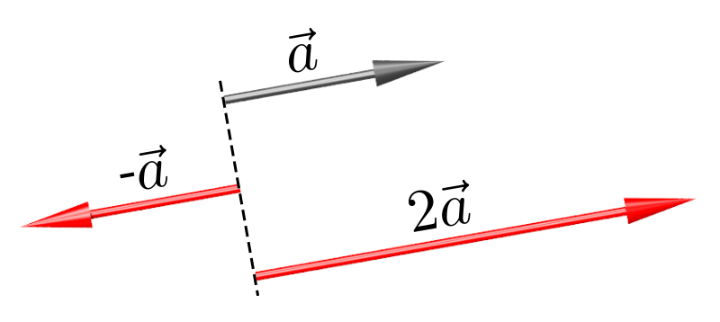 scalar multiplication